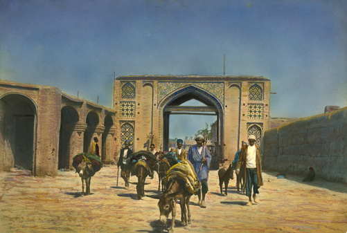 Rasht ,Iran